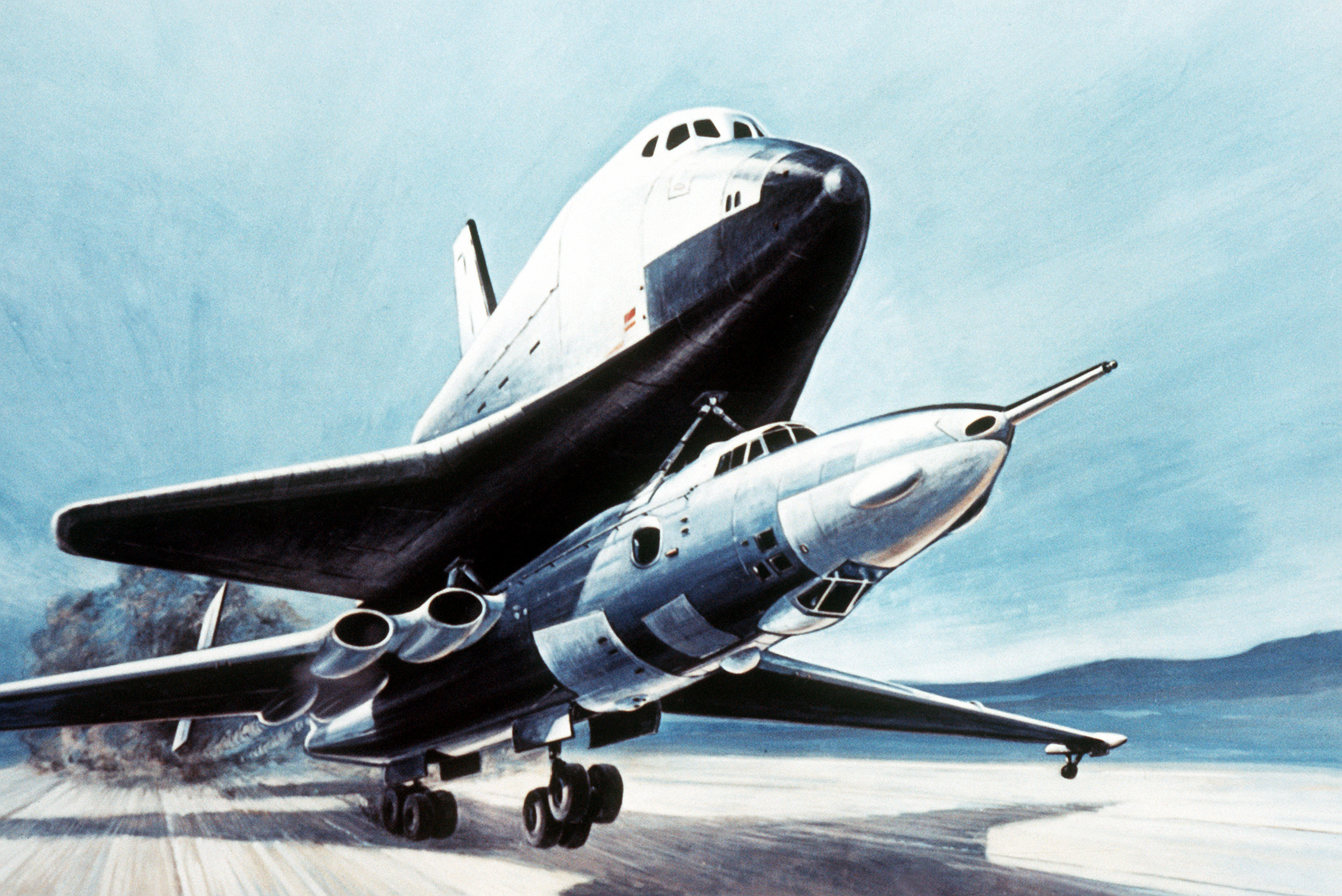 Artist's concept of a Soviet space shuttle riding atop an M-4 Bison bomber aircraft. (From Soviet Military Power 1985)